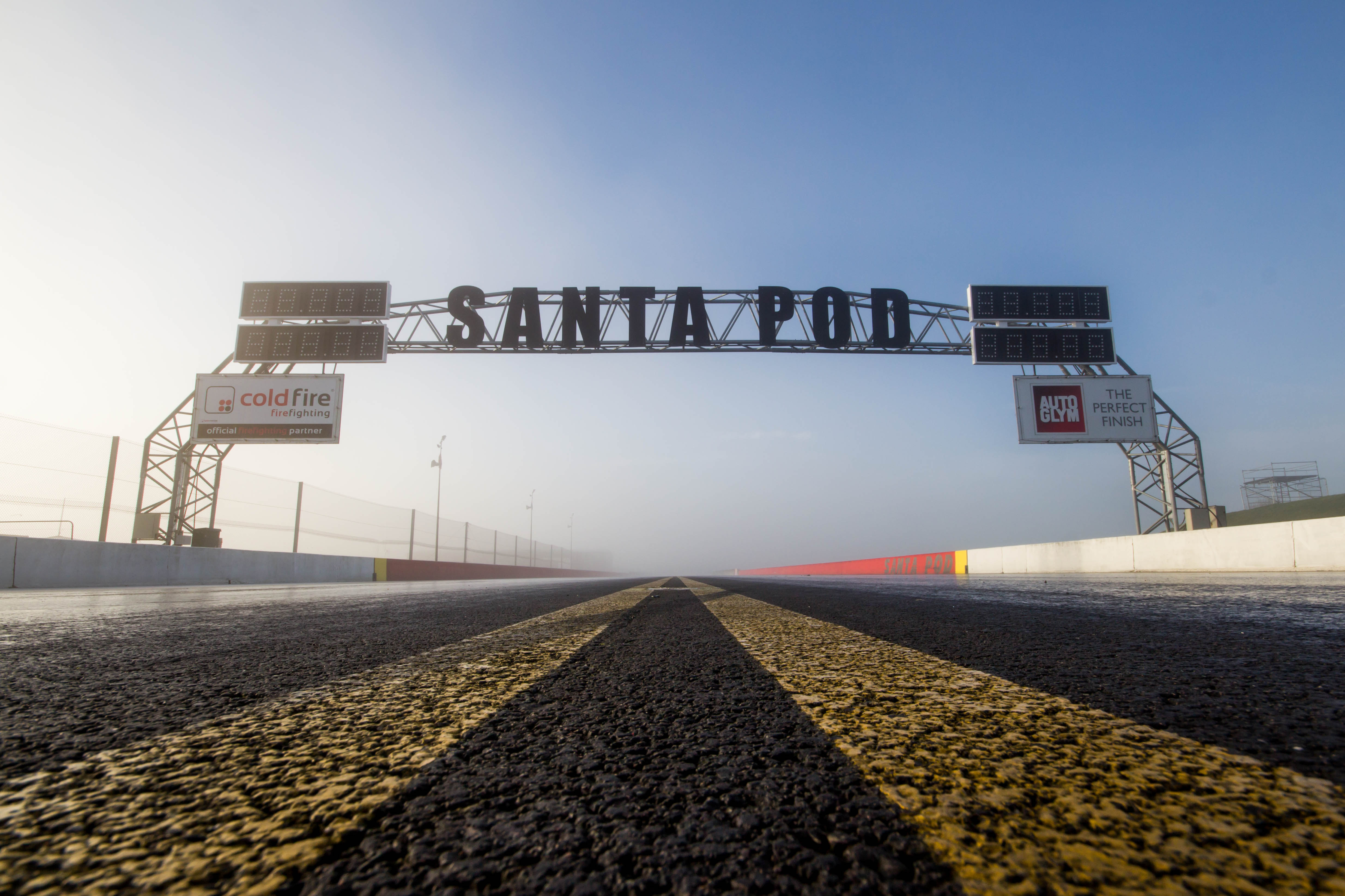 The finish line gantry at Santa Pod Raceway. Photo taken by Daniel Smith, 2017.